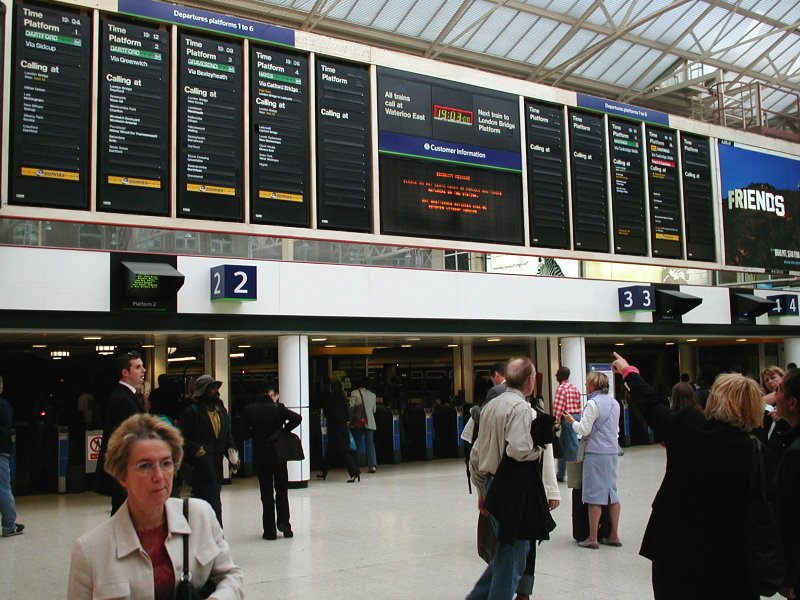 Charing Cross Station concourse including the split-flap display above Platforms 1 to 4, showing the next departures to Dartford via Sidcup, Dartford via Greenwich, Gravesend and Hayes.